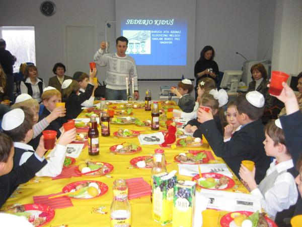 A Passover eve meal (Leyl Ha-Seder/Seder Nacht) in the Shalom Aleichem Jewish elementary school in Vilnius, Lithuania.